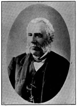 John Turnbull Thomson from: Cyclopedia Company Limited (Hrsg.):The Cyclopedia of New Zealand [Otago & Southland Provincial Districts] - Industrial Descriptive, Historical, Biographical, Facts, Figures, Illustrations. The Cyclopedia Company Ltd. Christchurch 1903 Seite 869-870. Digitalisat in der Electronic Text Collection der University Wellington